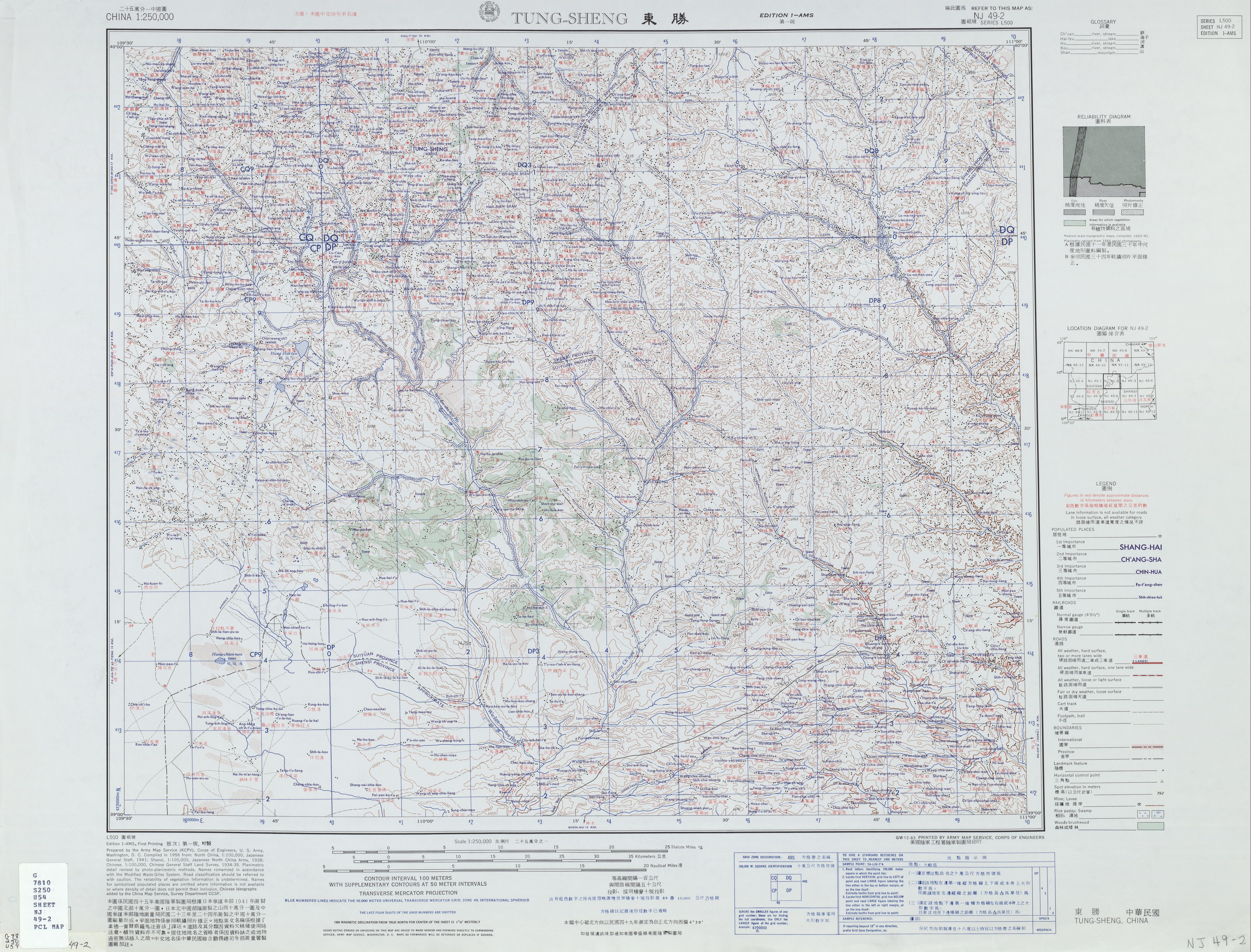 China AMS Topographic Maps